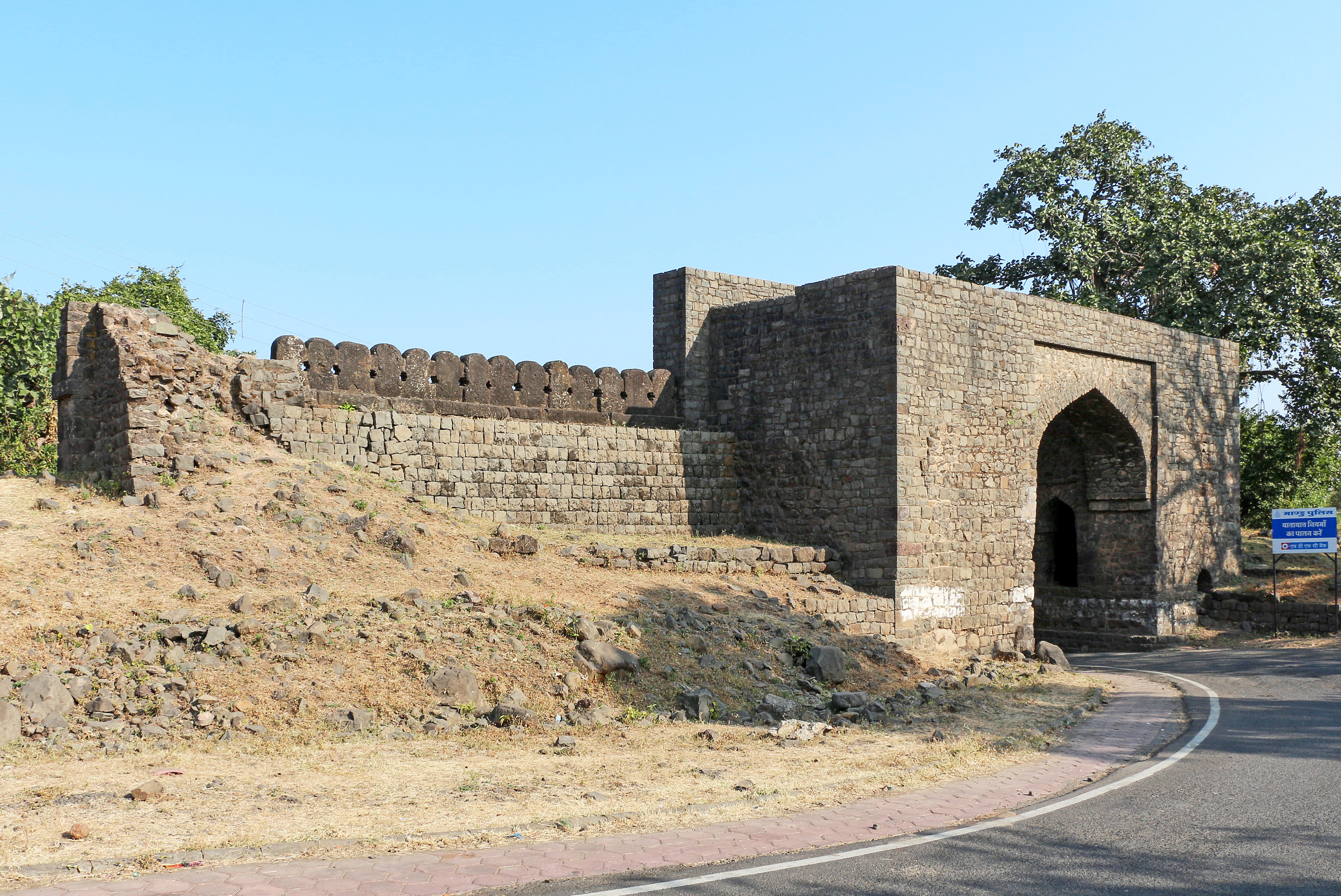 A gate in Mandu, India